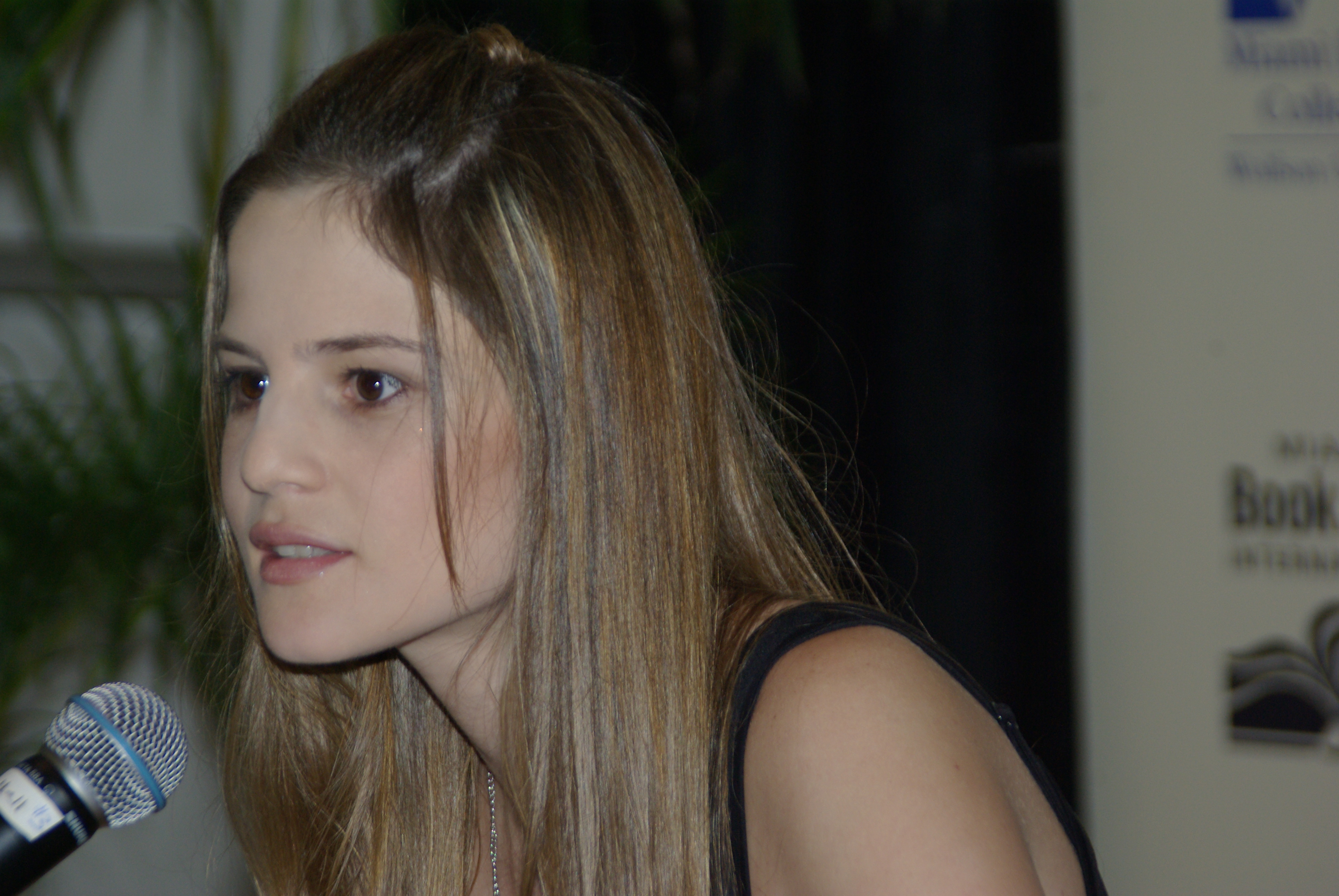 Peruvian writer Silvia Nuñez del Arco at the Miami Book Fair International 2011